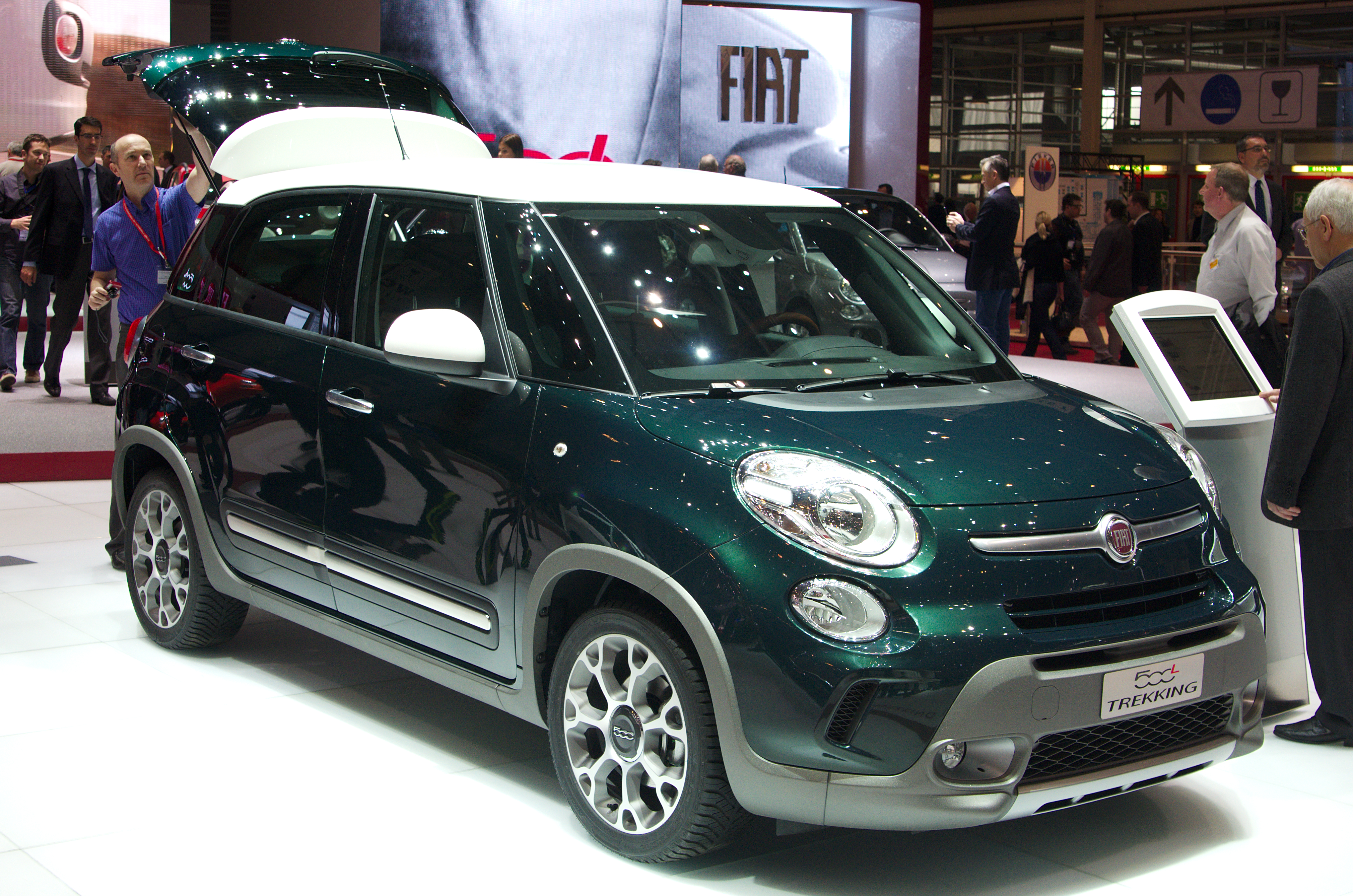 Geneva MotorShow 2013 - Fiat 500L Trekking